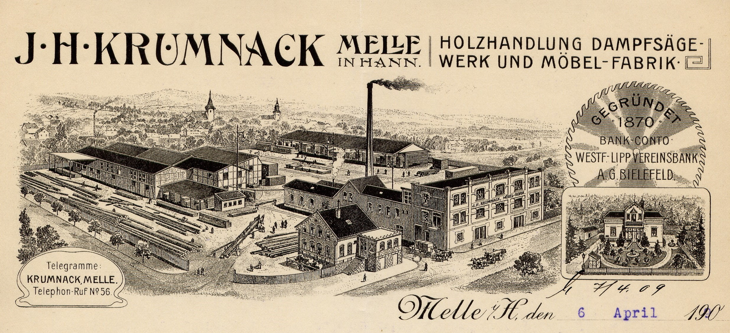 Copy of letterhead 1909